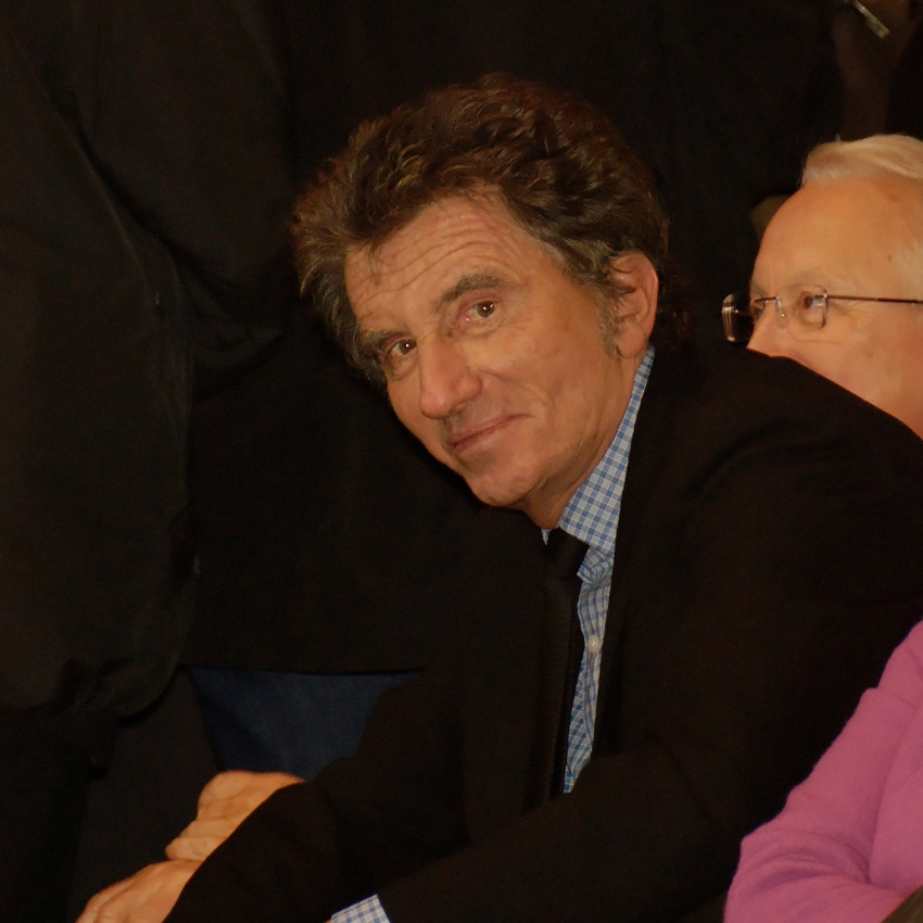 Jack Lang in the front row at a meeting held on Feb. 6, 2007 by the French Socialist Party at the Carpentier Hall in Paris.